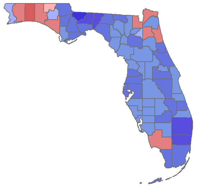 Self-made image showing county-by-county results of Florida's 2006 Senate race.